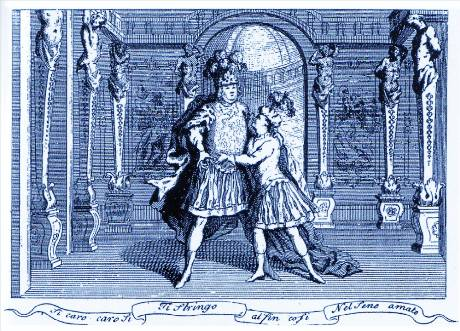 Castrato singer Senesino as Admeto and primadonna Faustina Bordoni in the role of Alceste in George Frederick Handel's opera Admeto at King’s Theatre, Haymarket in London (first performance 31 January 1727) The carricature shows the two singers during the last aria (No. 38) of Alceste, the wording of which Sì caro, caro sì, Ti stringo al fin così nel sen amato. is engraved in the banner beneath the carricature.